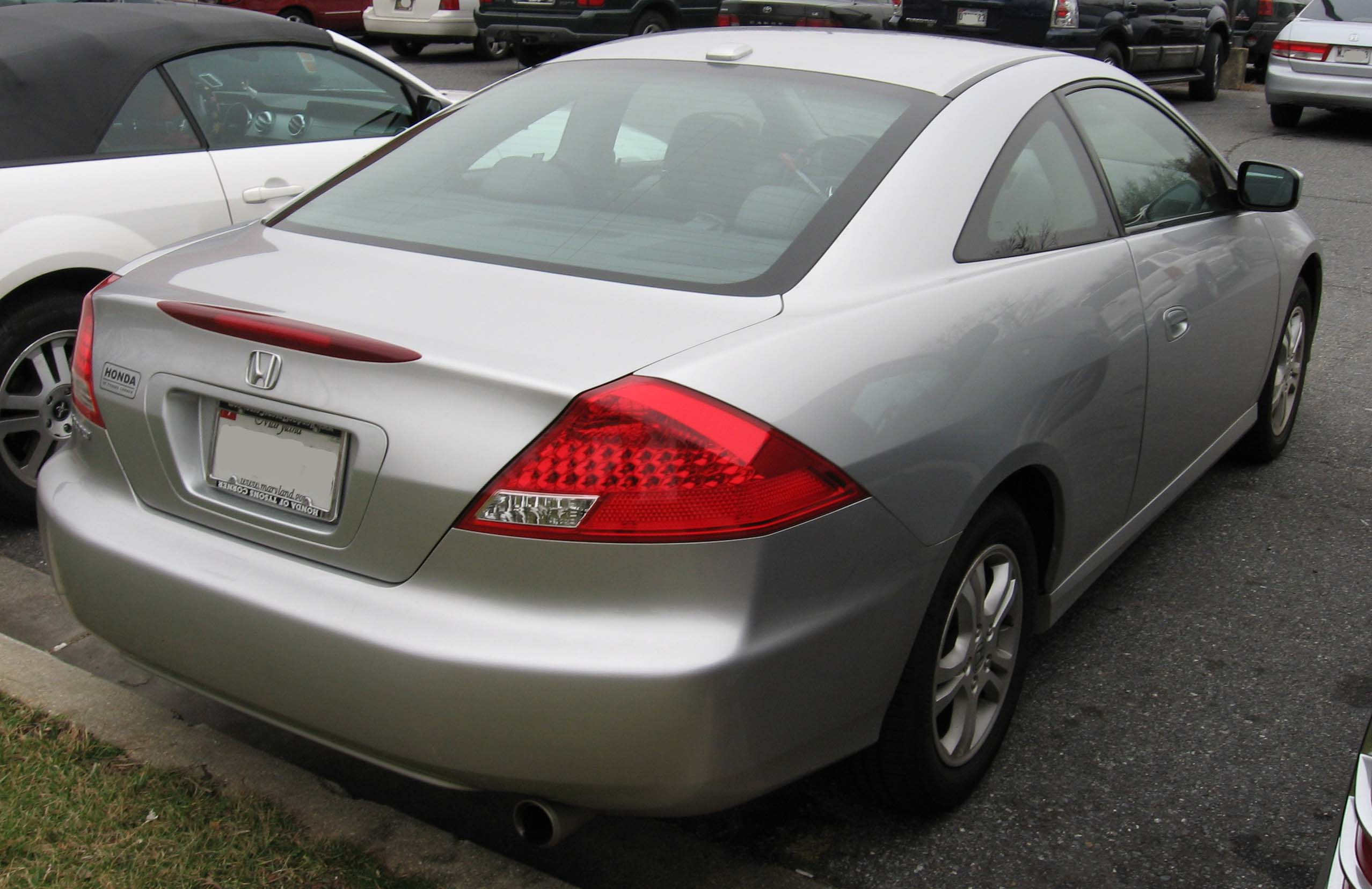 2006-2007 Honda Accord coupe photographed in USA.